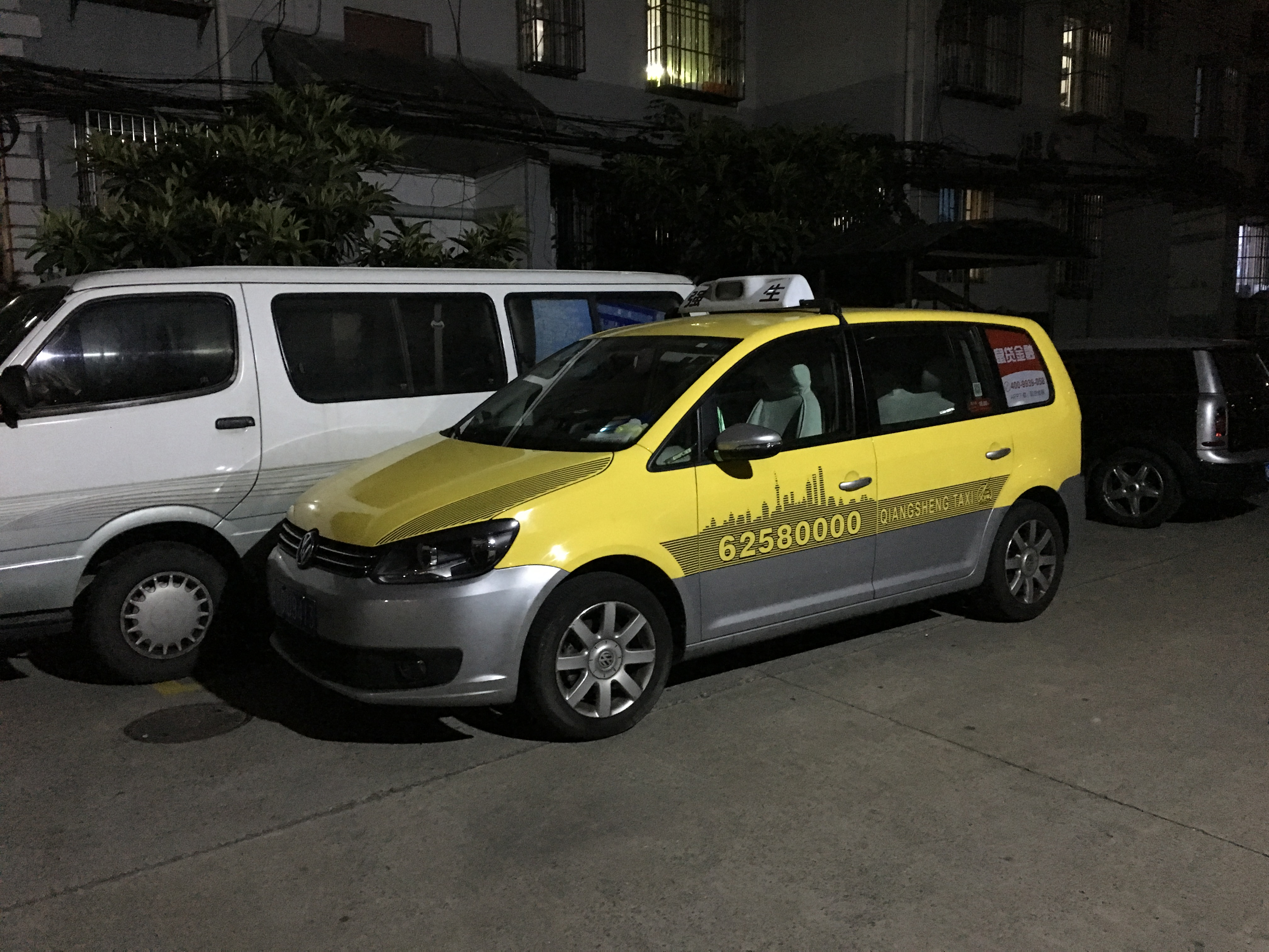 强生的途安出租车